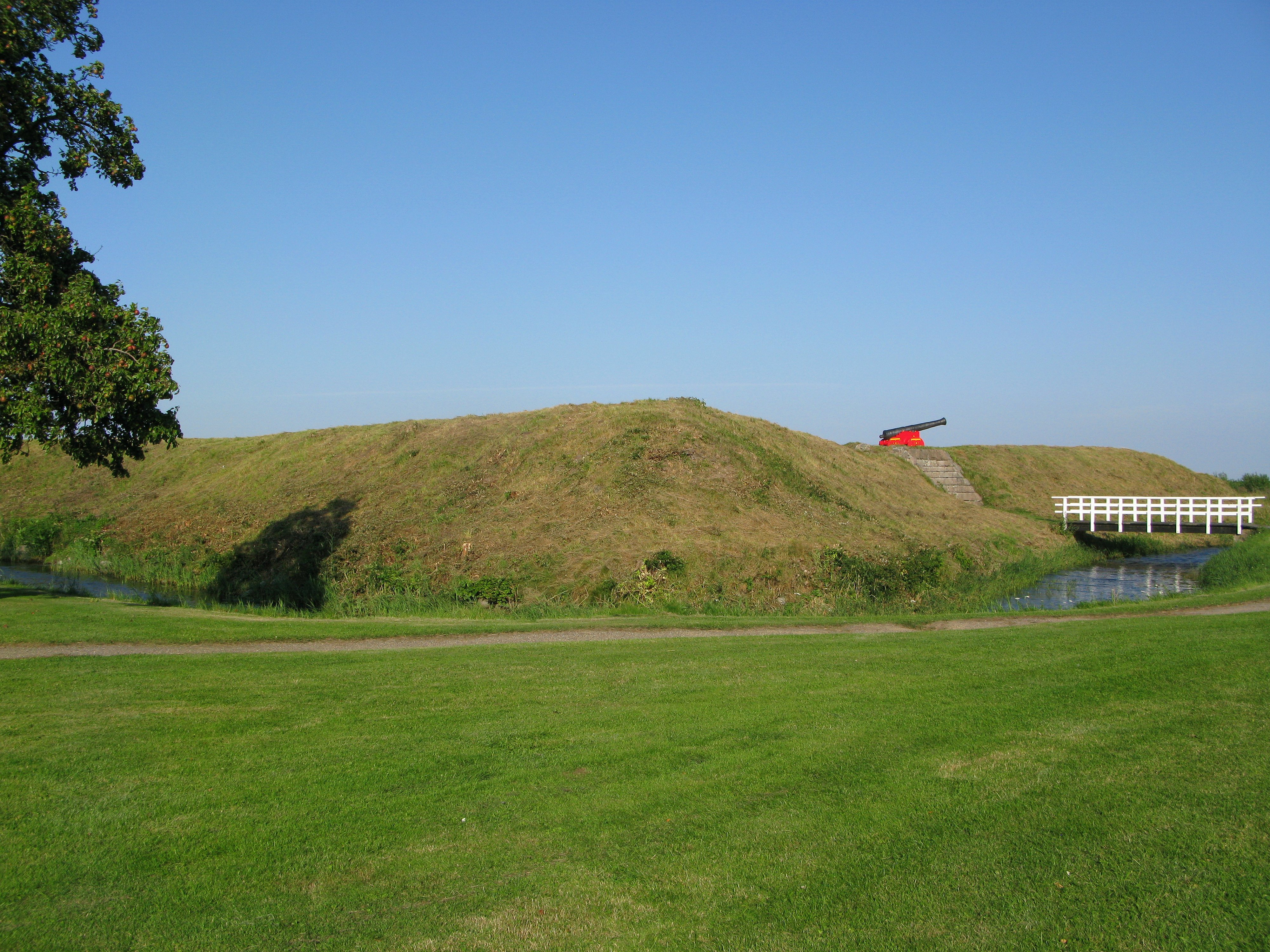 historical military fort "Noerdre Skanse" in Frederikshavn, Northern Denmark